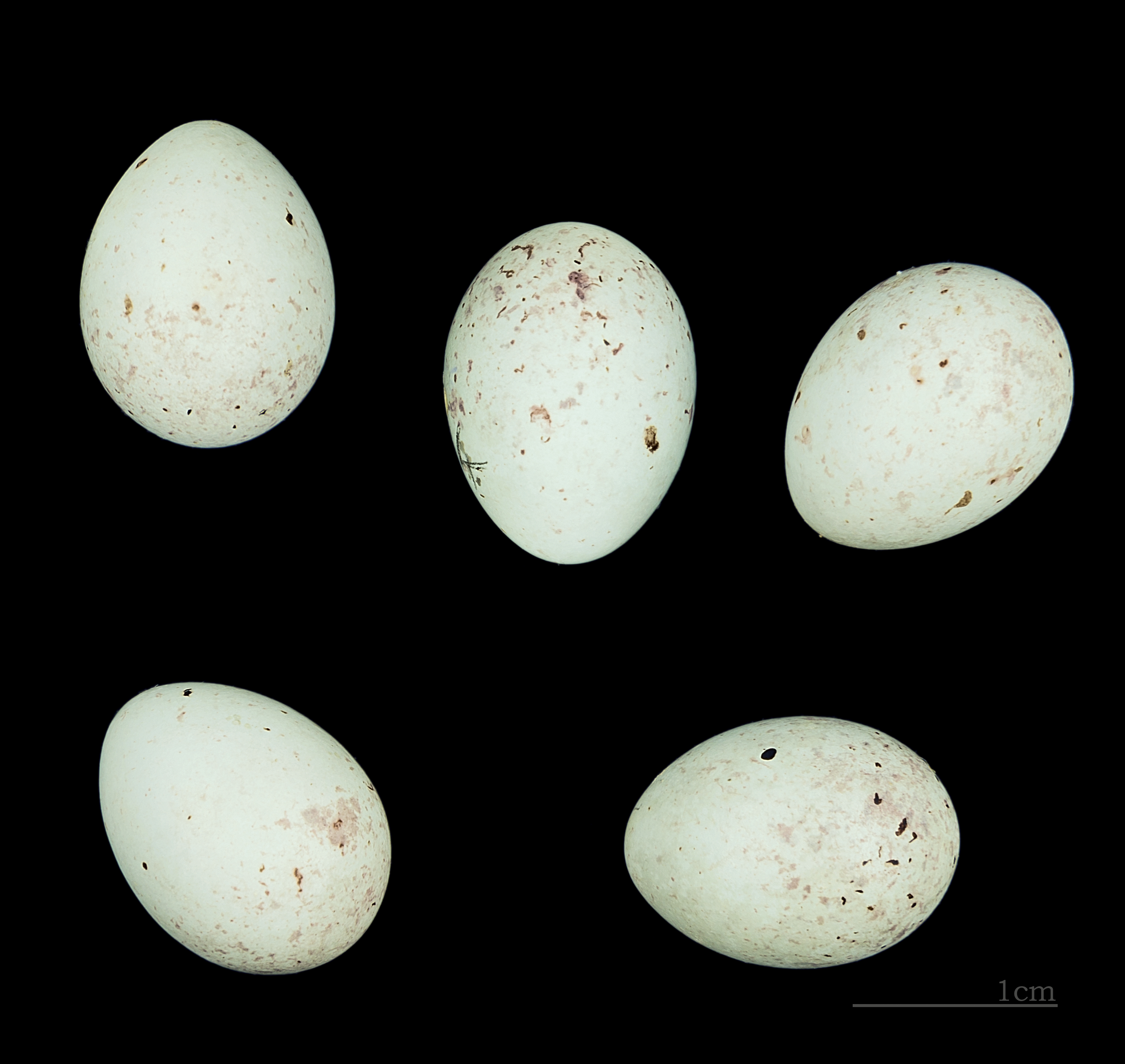 Egg of Lesser Redpoll. Collection of René de Naurois /Jacques Perrin de Brichambaut.